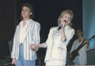 Barbara Mandrell & Dan Schafer after 'To Me' performance in 1986 'Moments' tour